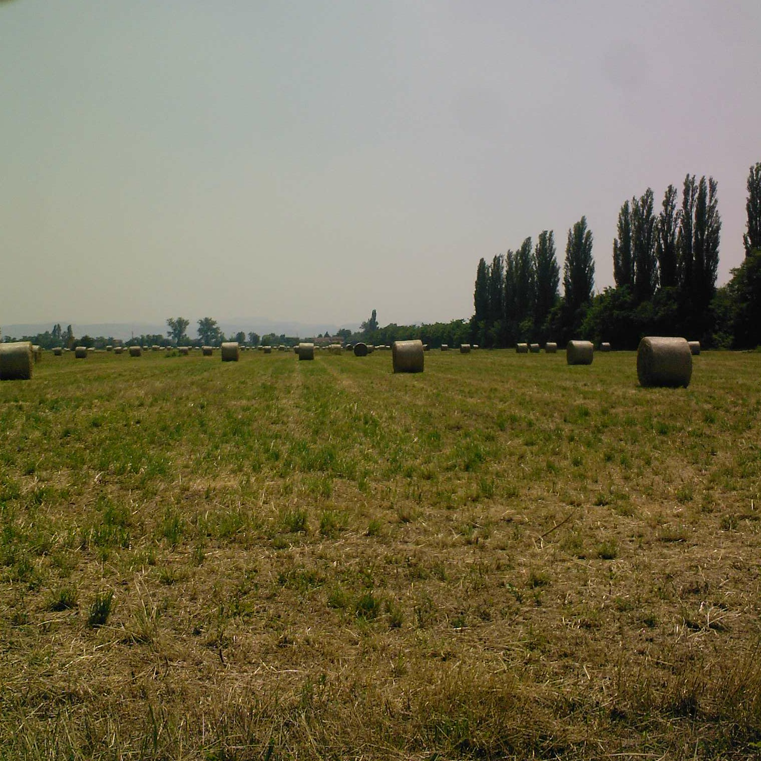 The view of fields in Aiola